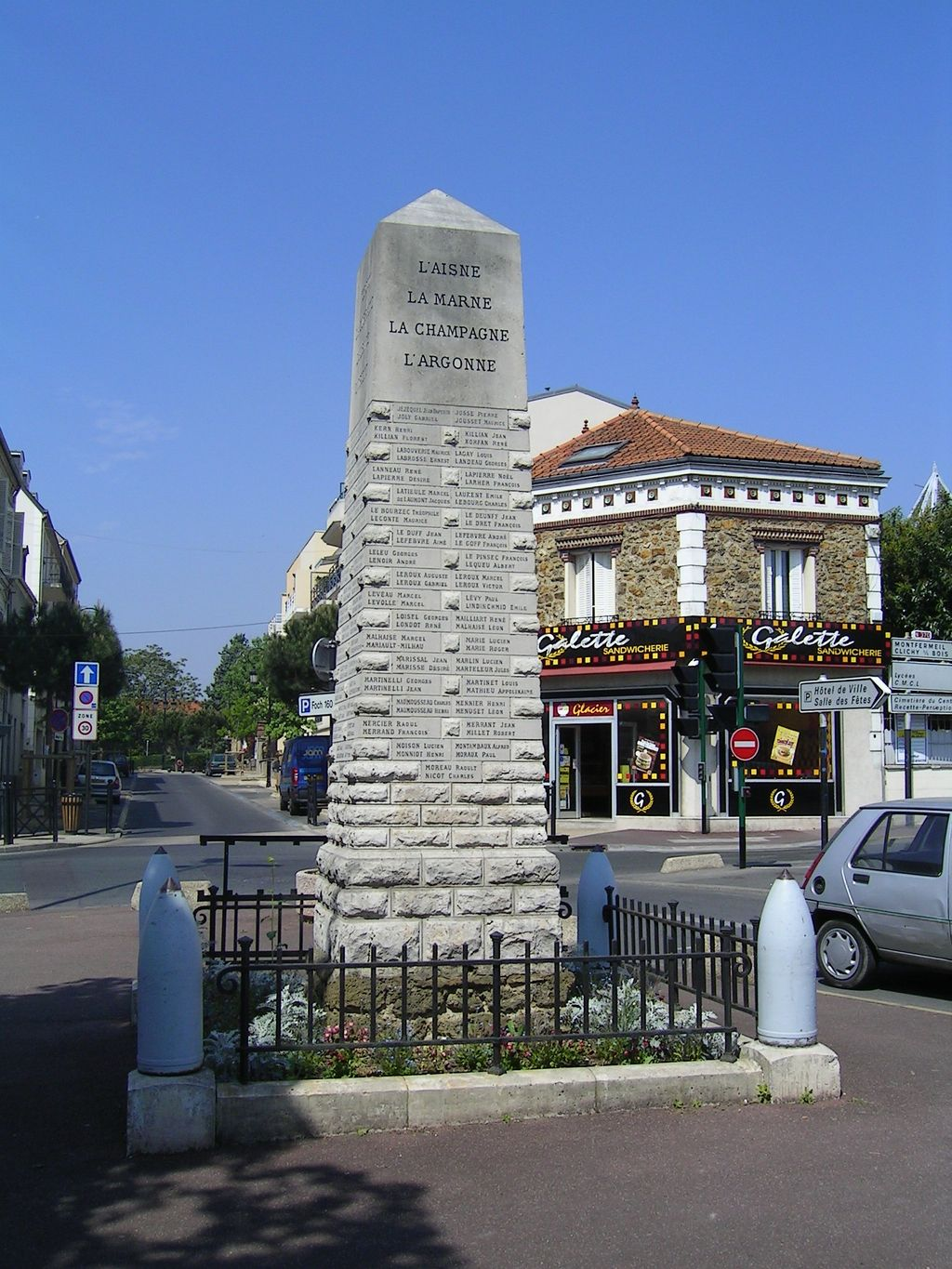 Monument aux morts, place Foch Photo personnelle (own work) de Marianna